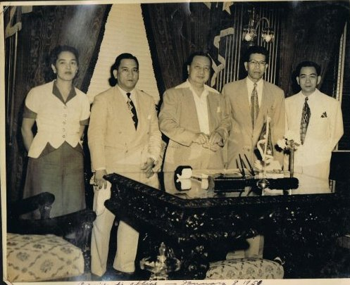 Gov. Villavert with Pres. Quirino